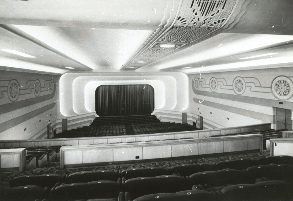 Interior of the Star Theatre, Goodwood Road, Goodwood, 1941 (since 1978 the Capri Theatre).